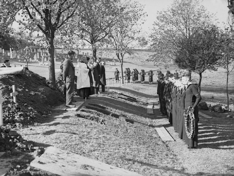 Naval Burial Service at Douglas Bank Cemetery, Rosyth, Scotland, 30 September 1944 21 crewmen of the escort carrier HMS NABOB who were killed when their ship was torpedoed during an attack on the German battleship TIRPITZ are buried with full naval honours at Douglas Bank Cemetery. The Reverend G Davies conducts the service at the graves of Church of England victims.